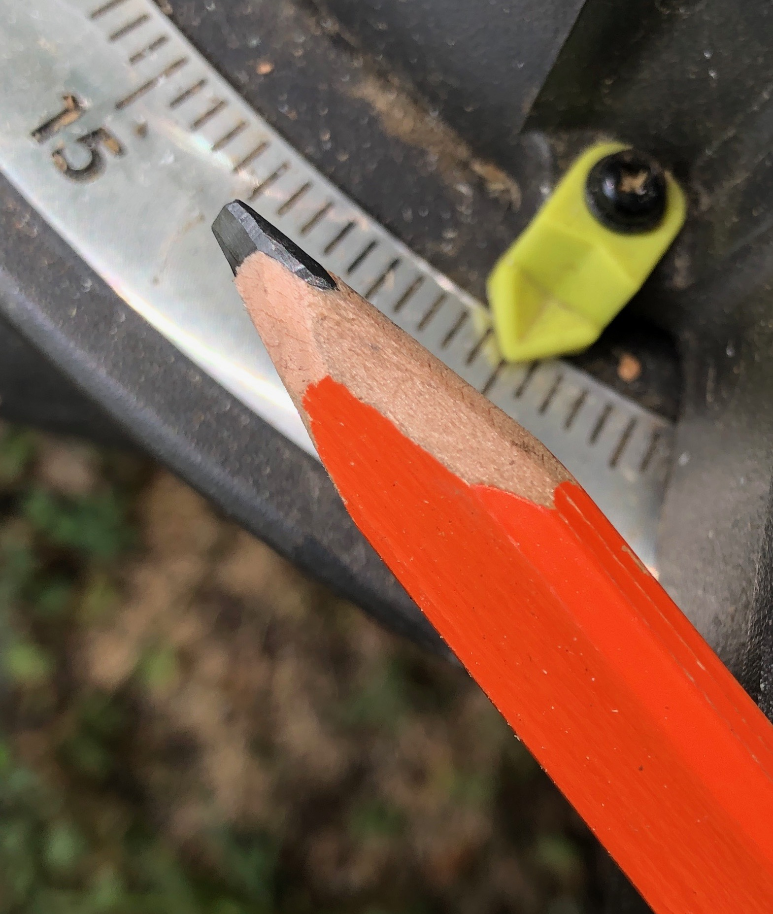 An example to show what a carpenter's pencil is